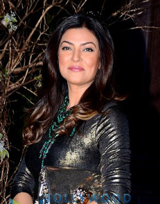 Manish Malhotra’s 50th birthday bash